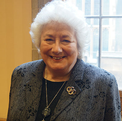 Baroness Harris of Richmond